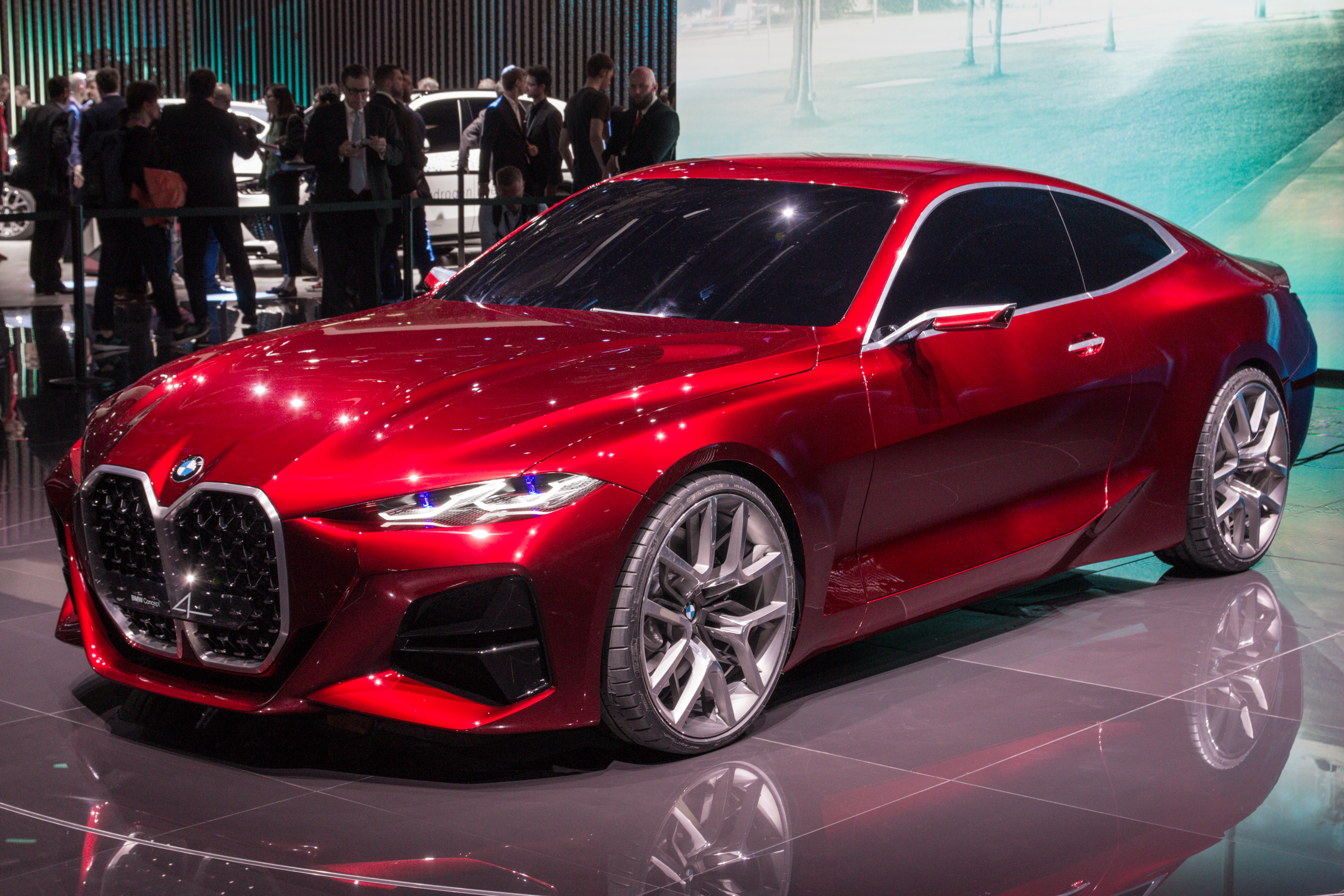 BMW Concept 4